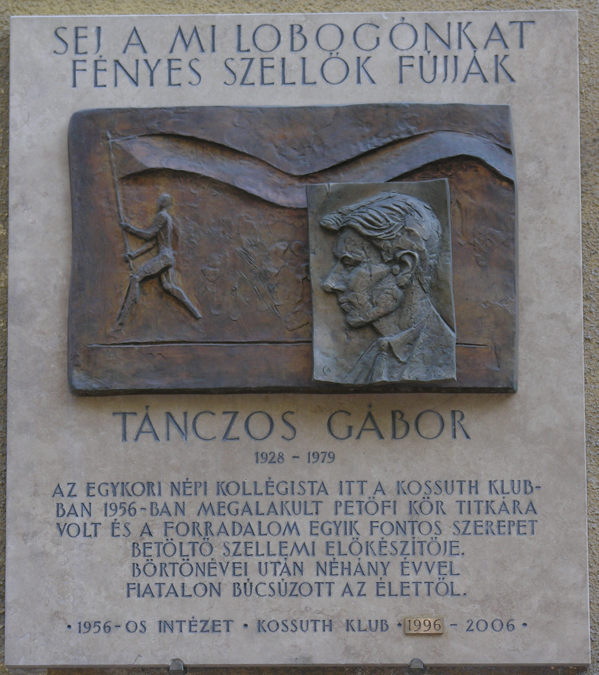 Commemorative plaque of the educator Gábor Tánczos in Budapest District VIII, Múzeum Street No 7 (Kossuth Club)